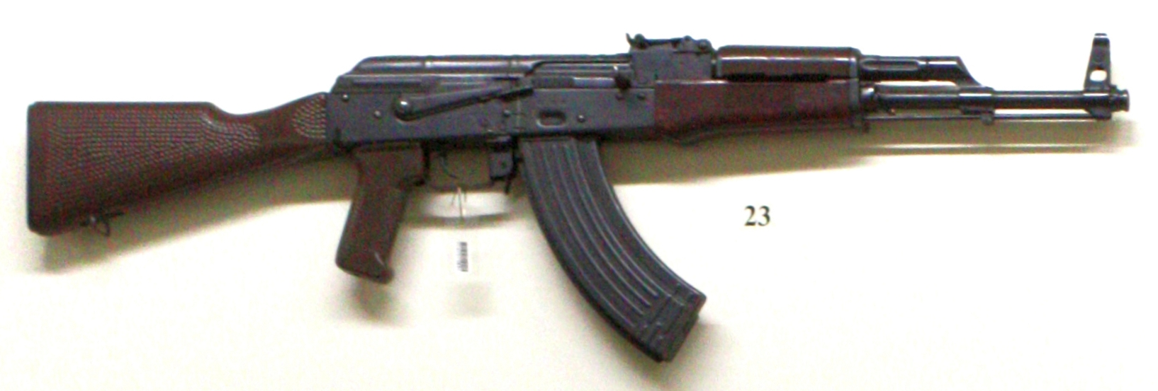 MPi-Km 72, German Tank Museum Munster.